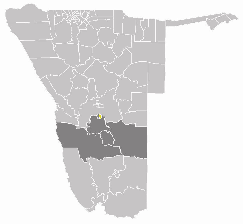 map of the Rehoboth East constituency within the Hardap region, Namibia